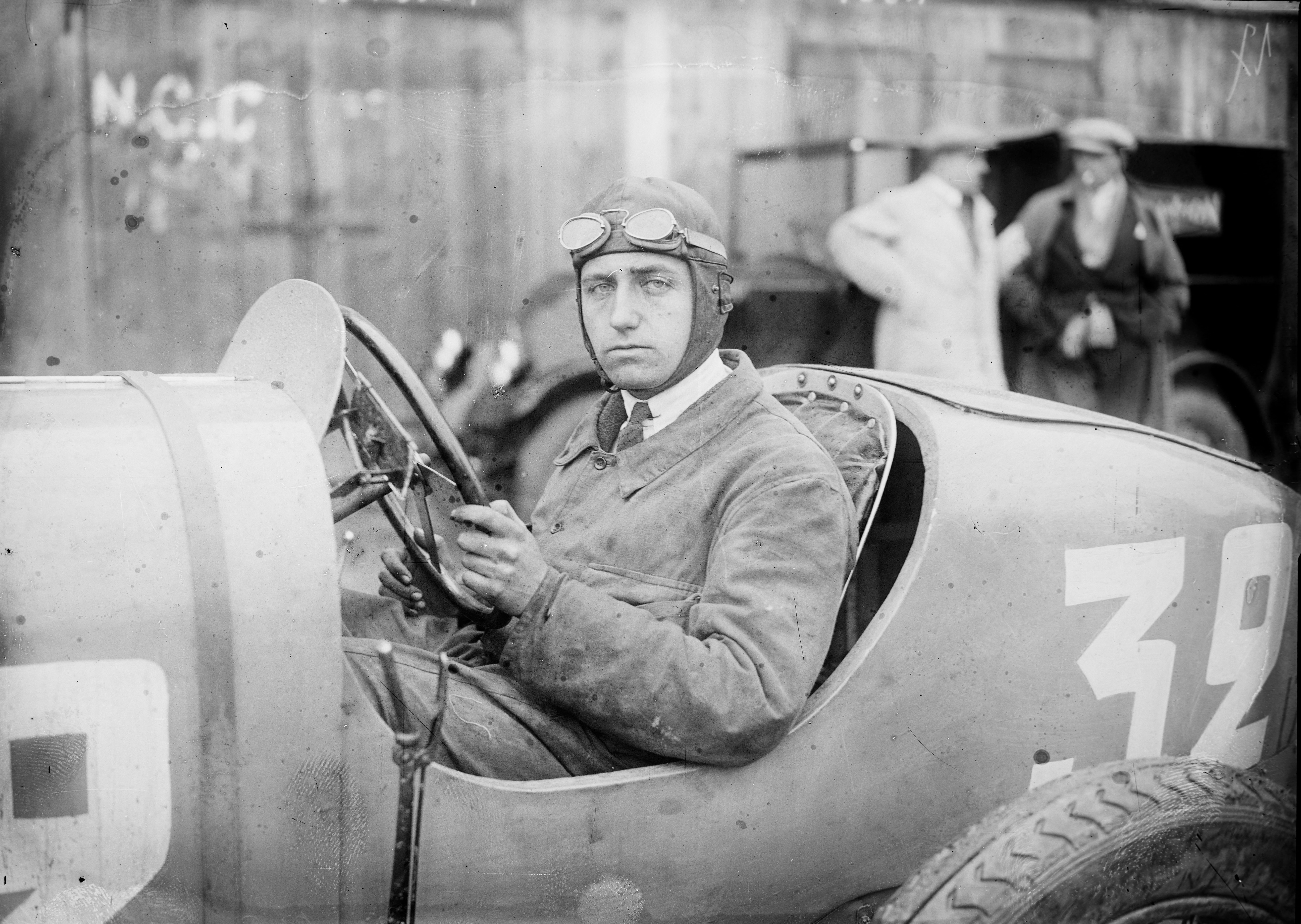 Ferdinand Montier in his Montier Special racing car at the Circuit de Montlhéry, France, 1 July 1927.